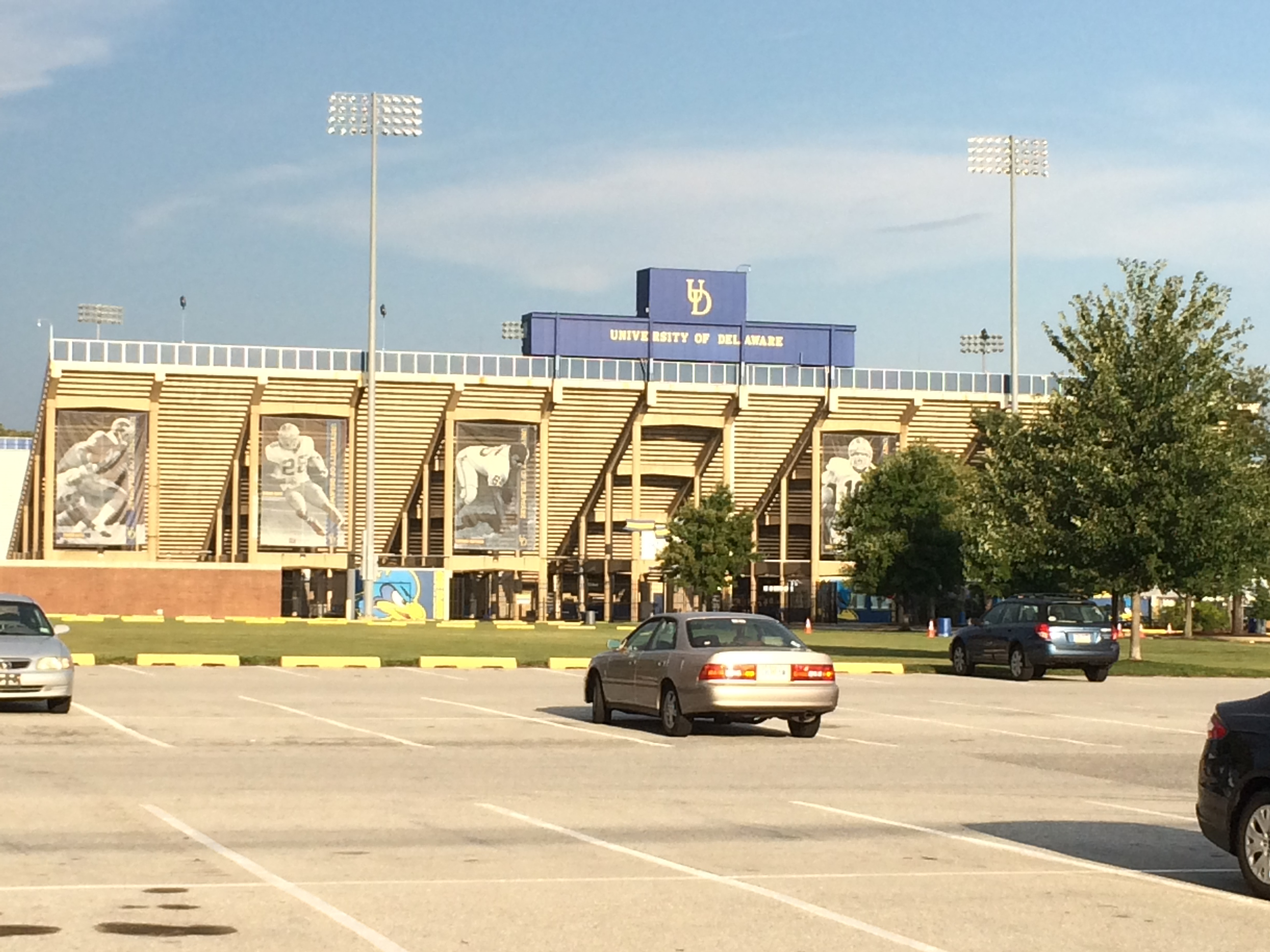 Delaware Stadium, University of Delaware, Newark, DE, USA